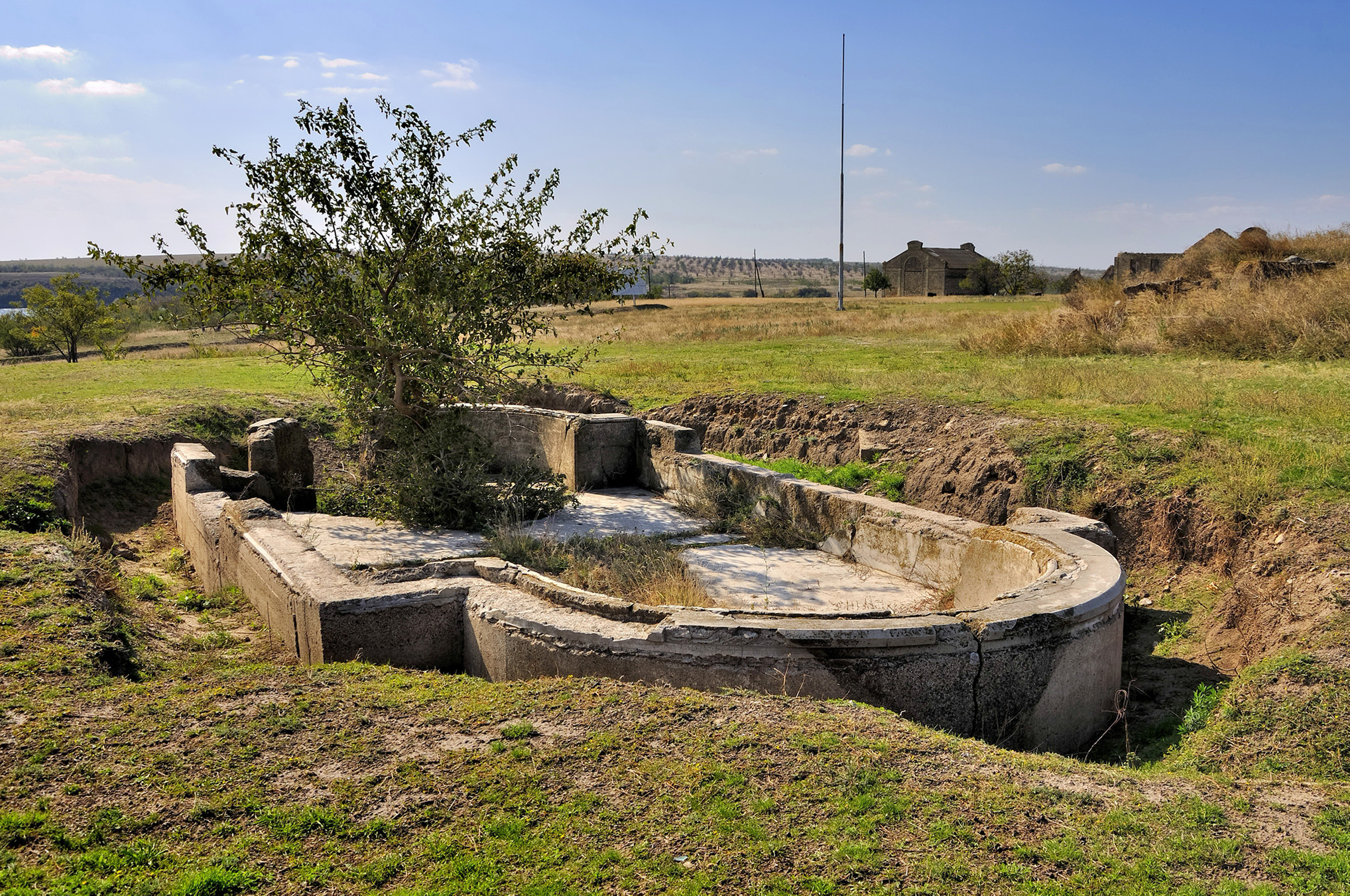 The territory of the former Kamianska Sich.